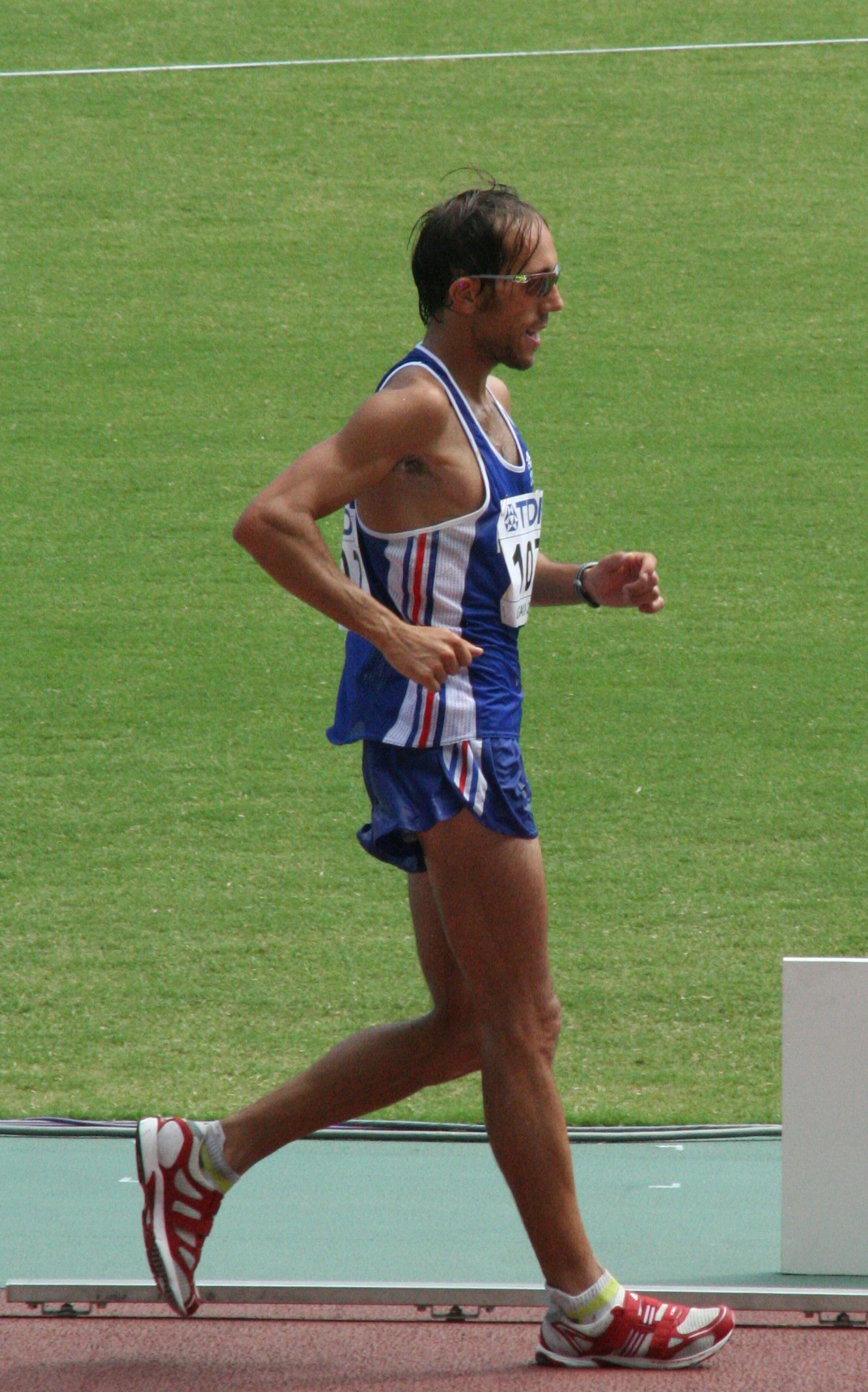 World Athletics Championships 2007 in Osaka - 50 km race walk silver medal winner Yohan Diniz near the finish